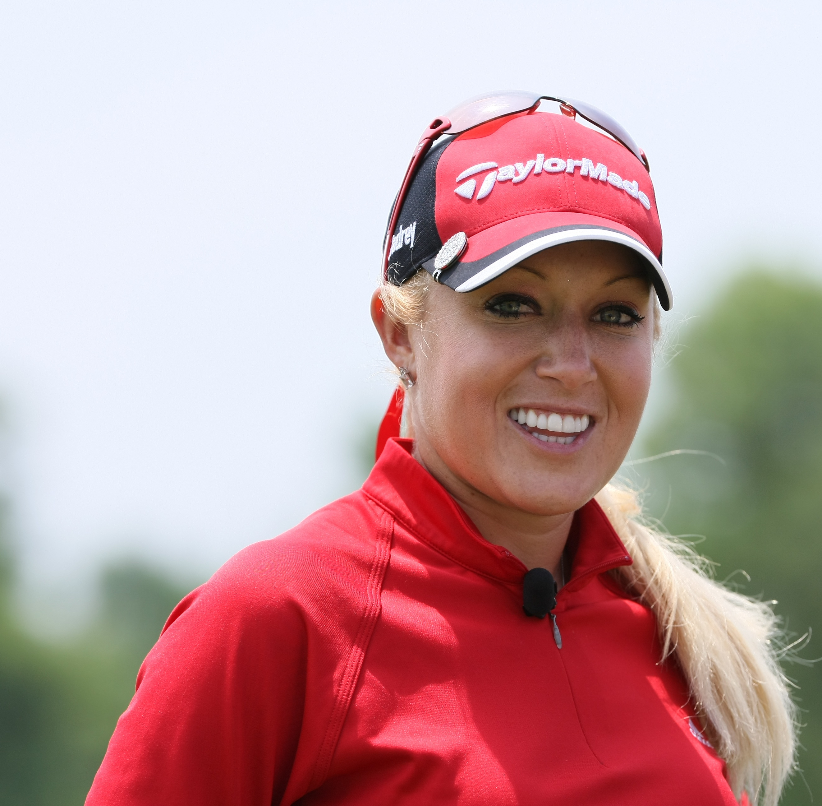 Natalie Gulbis at the LPGA Tournament at Bulle Rock in Maryland on June 9, 2009